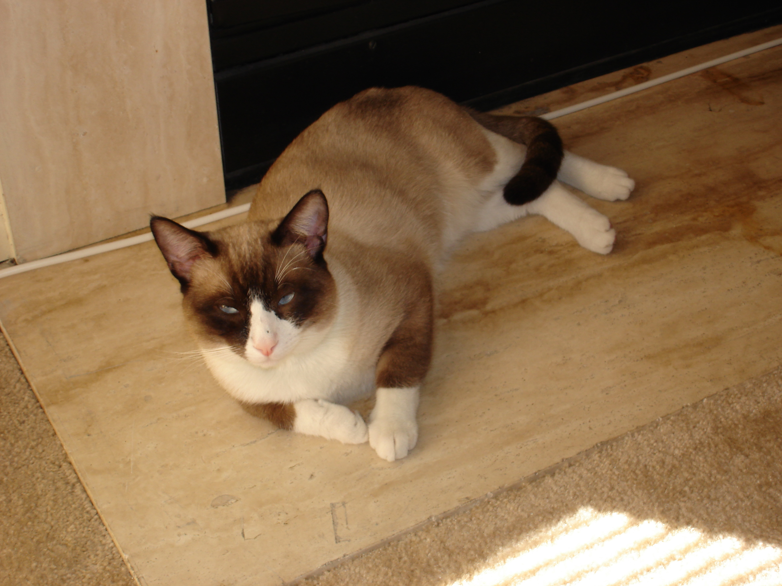 Mr Slinky.--Champion Snowshoe cat with puurrfect markings.